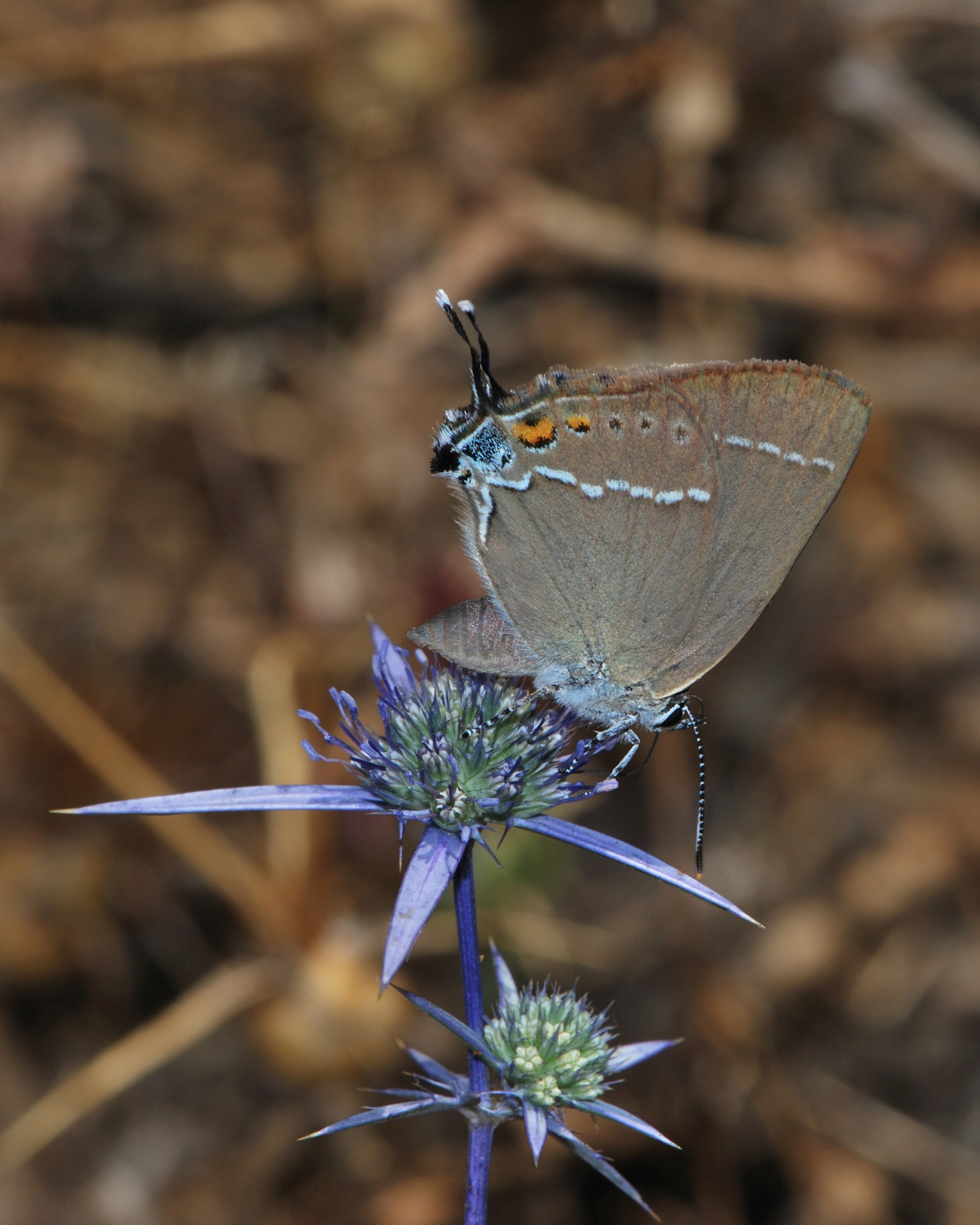 Satyrium spini foraging on Eryngium creticum, Mount Meron Nature Reserve, Upper Galilee, Israel, July 10, 2011.